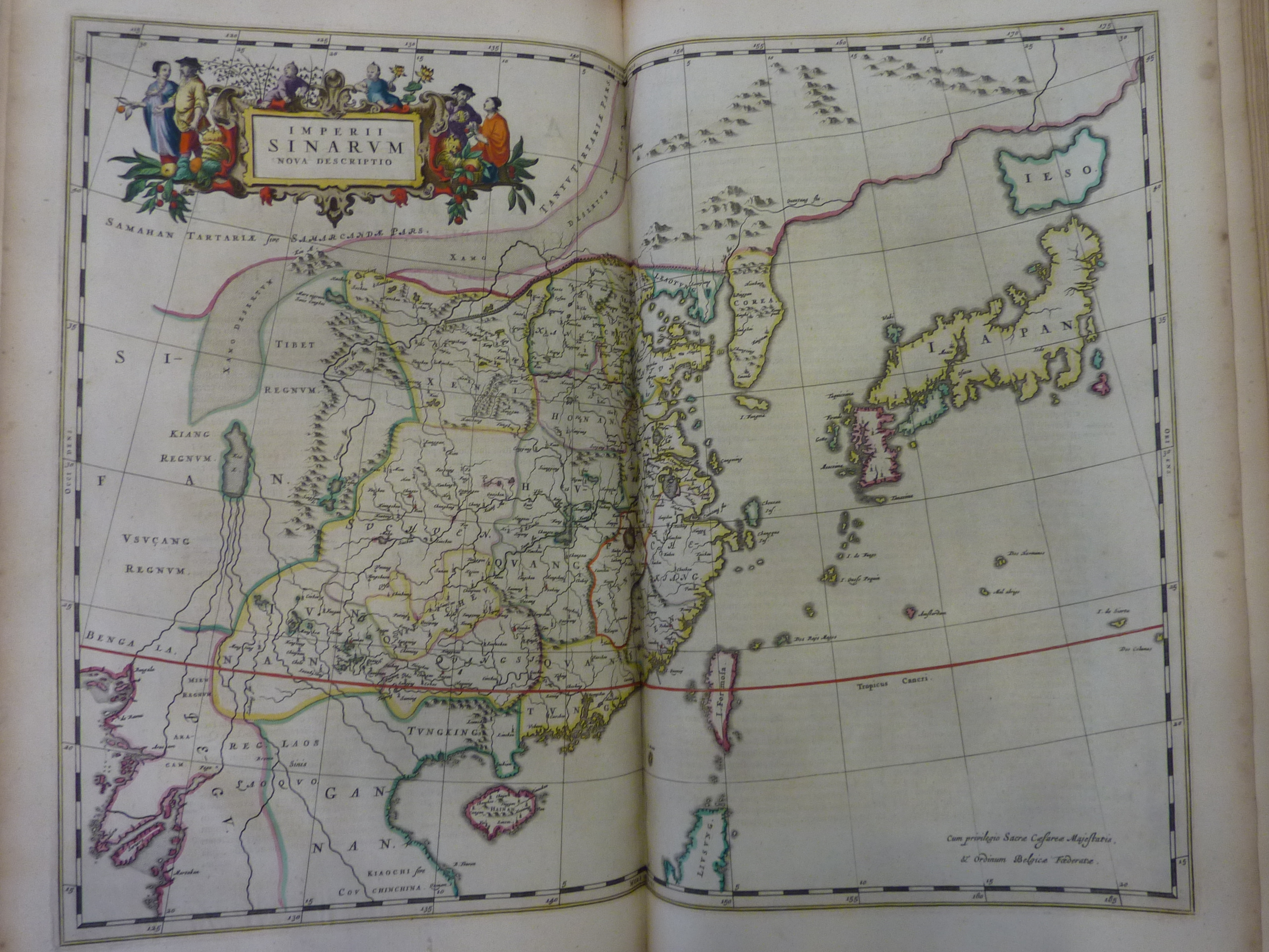 Novus Atlas Sinensis by Martino Martini; published in 1655 by Joan Blaeu as part of Volume 10 of his Atlas maior.